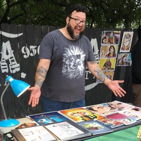 la pla art market